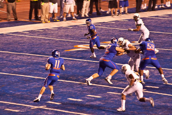 Kellen Moore leading the Boise State offense vs Oregon on September 3 2009 at Bronco Stadium in Boise ID